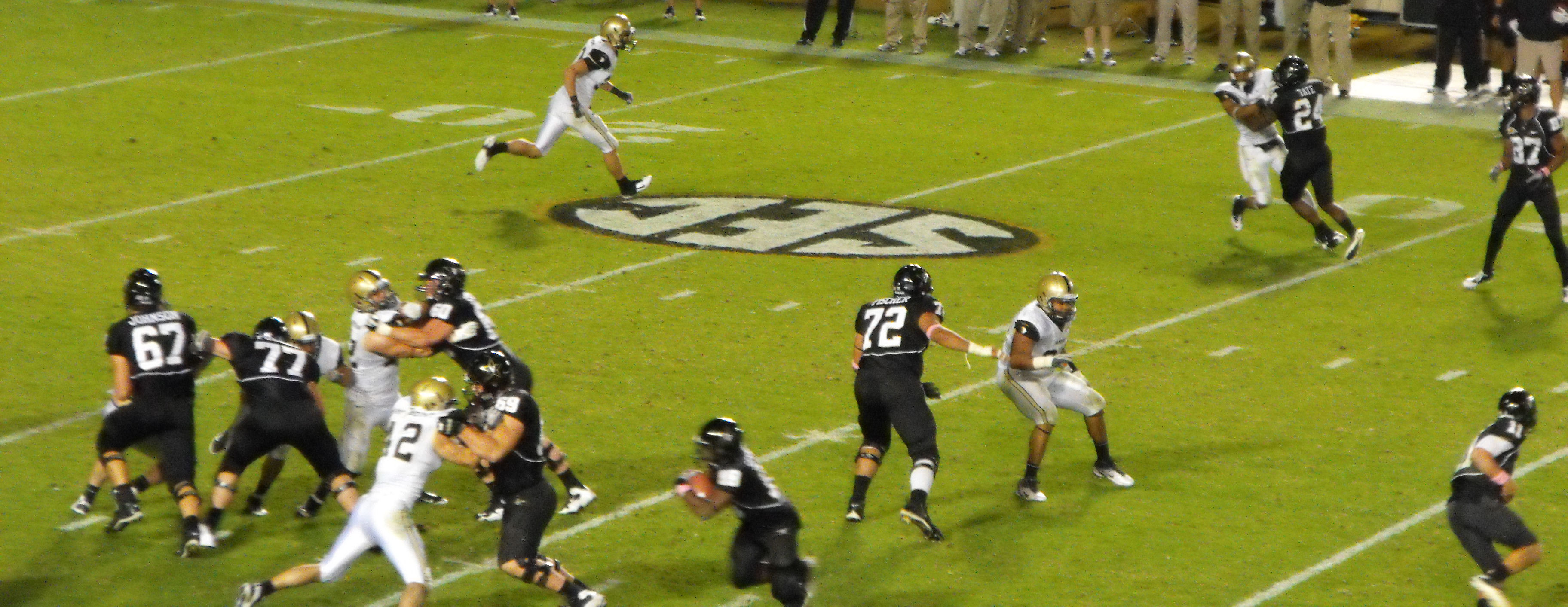 Made using Paint Pro XIIDate 29 October 2011Source Own workAuthor MDSankerOther versions released under GFDL Entirely my own work Made using Paint Pro XII